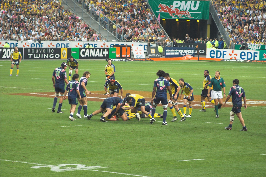 Top 14 (french rugby championship) final ASM vs Stade Français